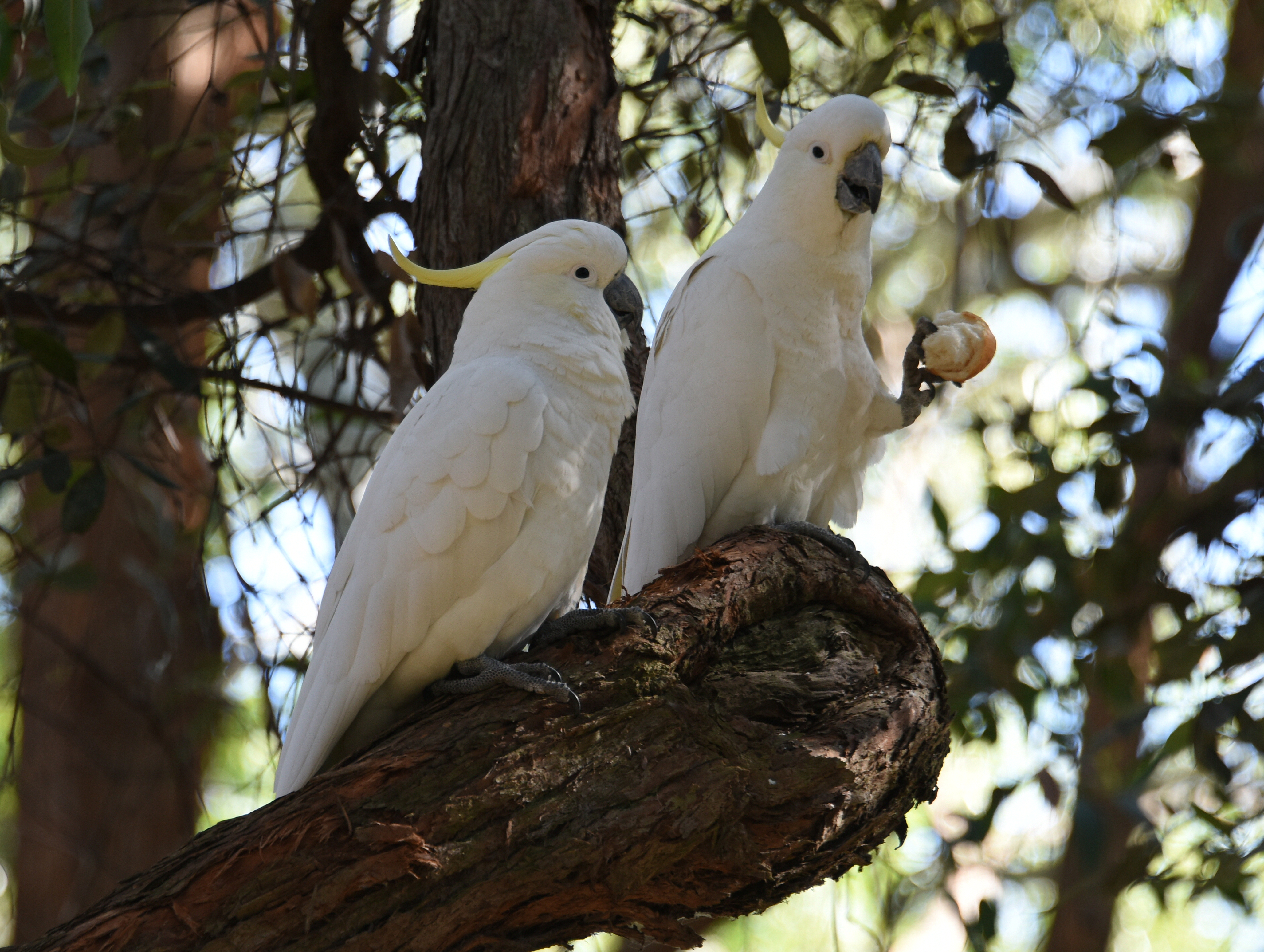 Sulphur-crested cockatoo, Boronia Park, Epping, Sydney